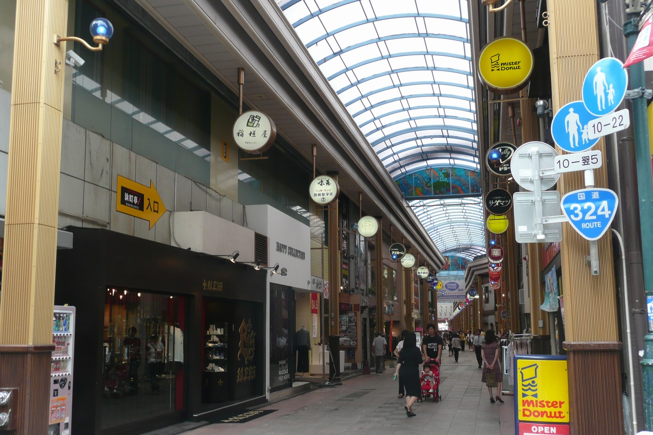 Hamanmachi Eastern side (National Route 324 - Nagasaki City, Japan)